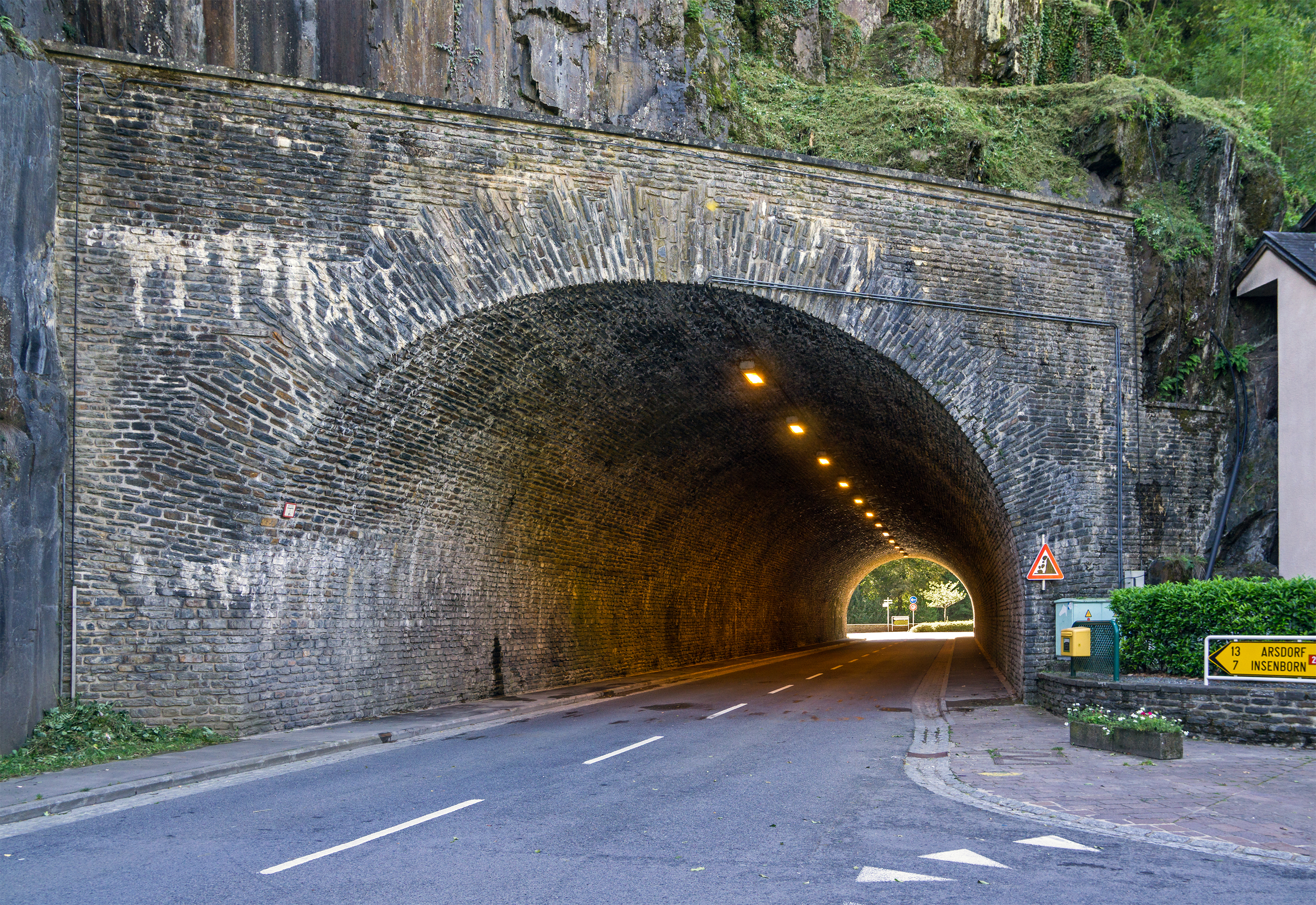 Road tunnel in Esch-sur-Sûre